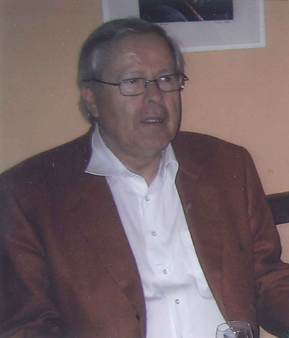 Hans Jobst Pleitner march 2007